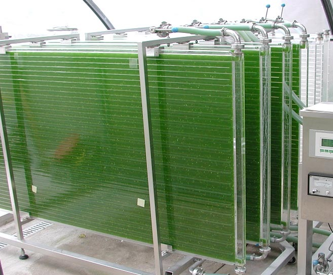 This image shows a plastic plate photobioreactor for the cultivation of microalgae and other photosynthetic organisms. It has an operational volume of 500 liters and the principle was developed in the 1990ies.